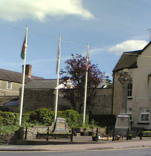 War memorial in Llangollen, Wales